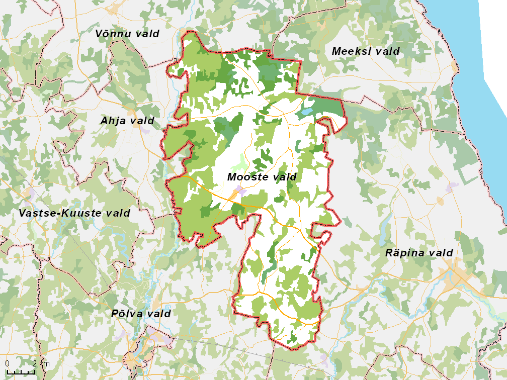 Map of municipality in Estonia